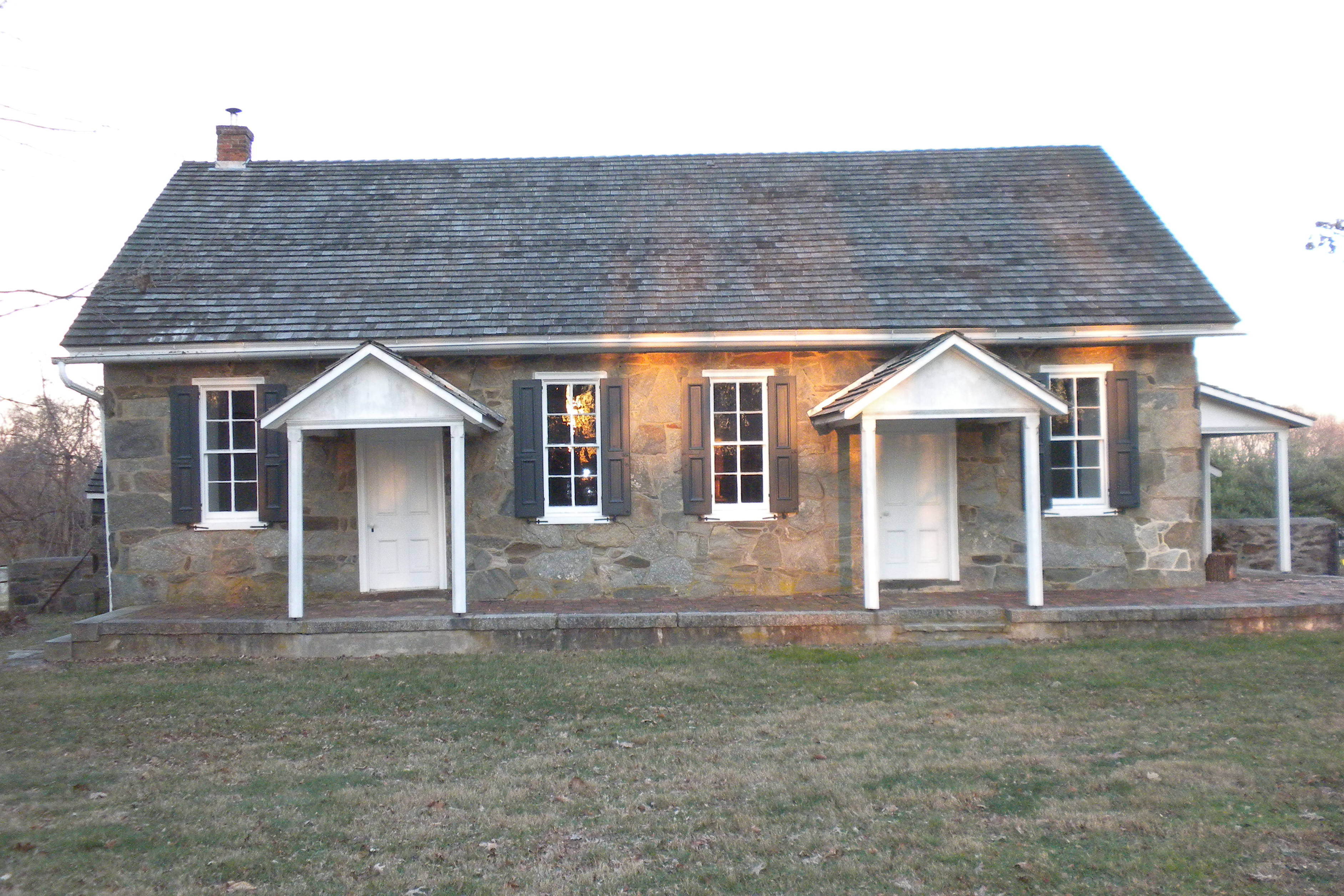 Parkersville Friends Meeting in Chester County PA. On NRHP. I donate this to the Public Domain